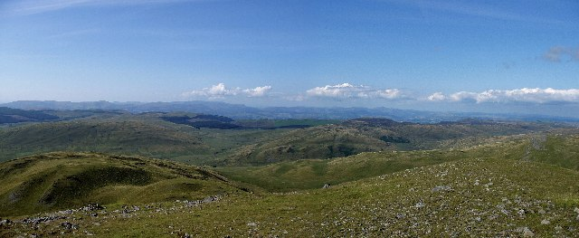 Northward panorama from Plynlimon. This image is taken from the summit cairn of Pumlumon Fawr and shows the hills beyond the valley of the Afon Hengwm.